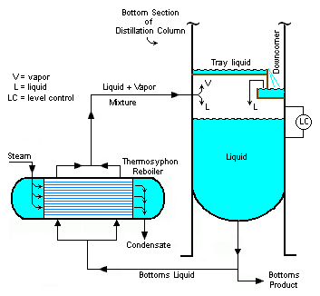 I drew this diagram of a thermosyphon reboiler, in use on an industrial distillation tower, using Microsoft's Paint program. I am User:mbeychok and the date is November 20, 2006. This image has also been uploaded into the English Wikipedia.